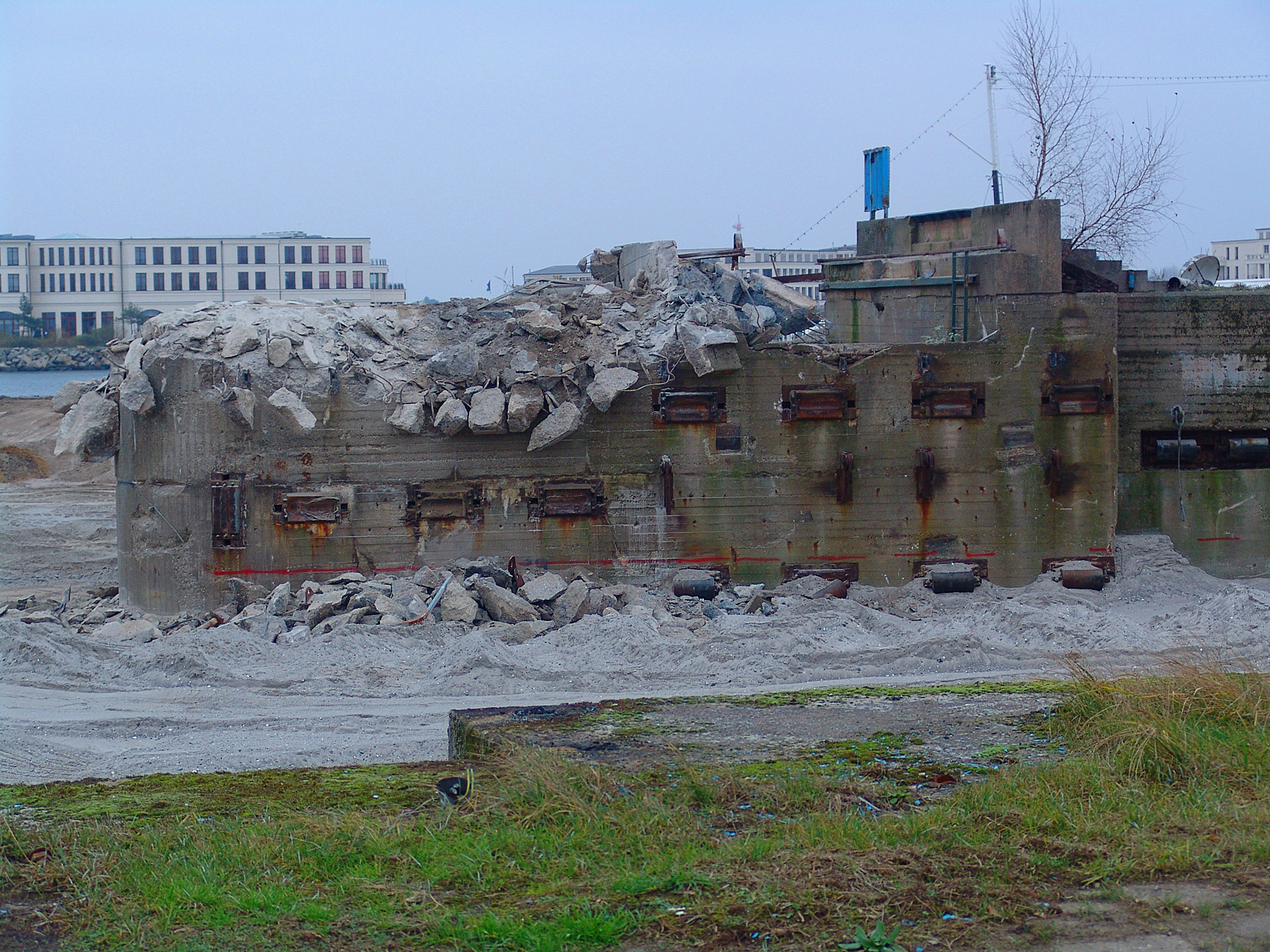 Demolition of Ferry Terminal Rostock Warnemuende 2014